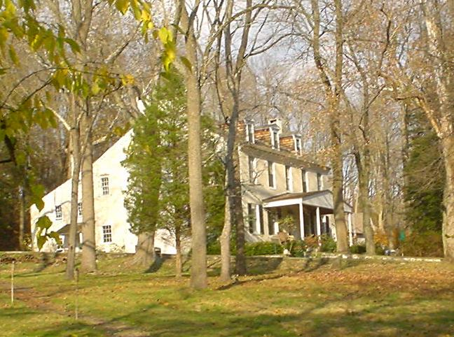 Ivy Mills (house accross street from actual mills), on NRHP.